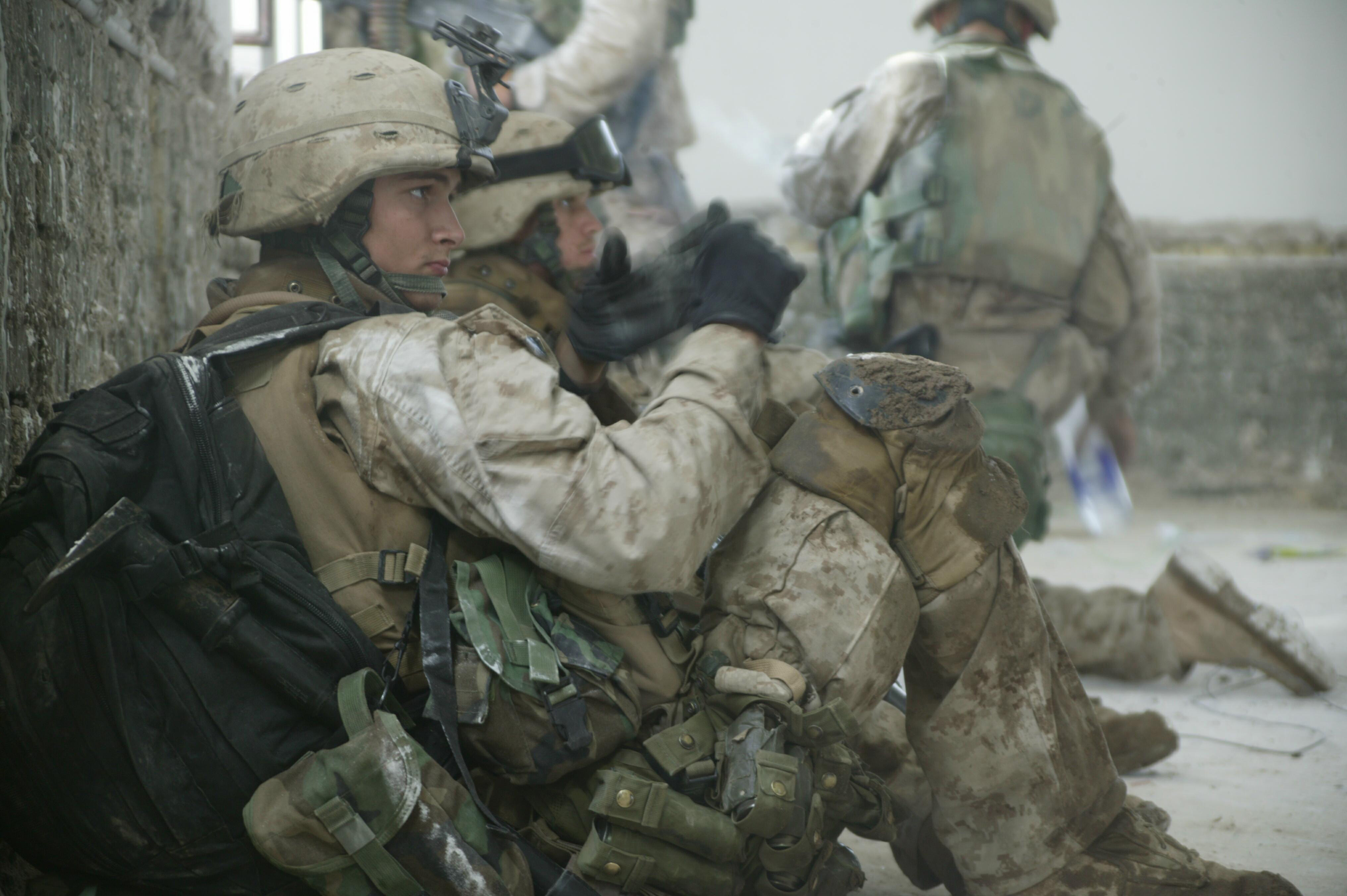 U.S. Marines take a break while searching the city of Al Fallujah, Iraq, for insurgents and weapons during Operation al Fajr (New Dawn) on Nov. 9, 2004. Al Fajr is an offensive operation to eradicate enemy forces within the city of Fallujah in support of continuing security and stabilization operations in the Al Anbar province of Iraq.